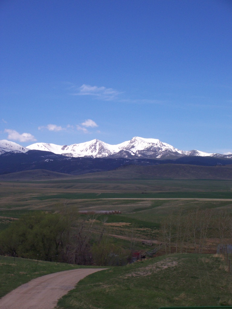 Photo taken by me from Highway 287 near Harrison, MT on May 18, 2008. In the background: Mount Jefferson and Hollowtop Mountain.